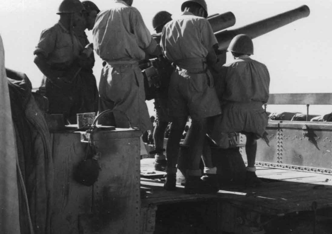 Italian anti-aircraft battery at Marsa Matrouh in the summer of 1942